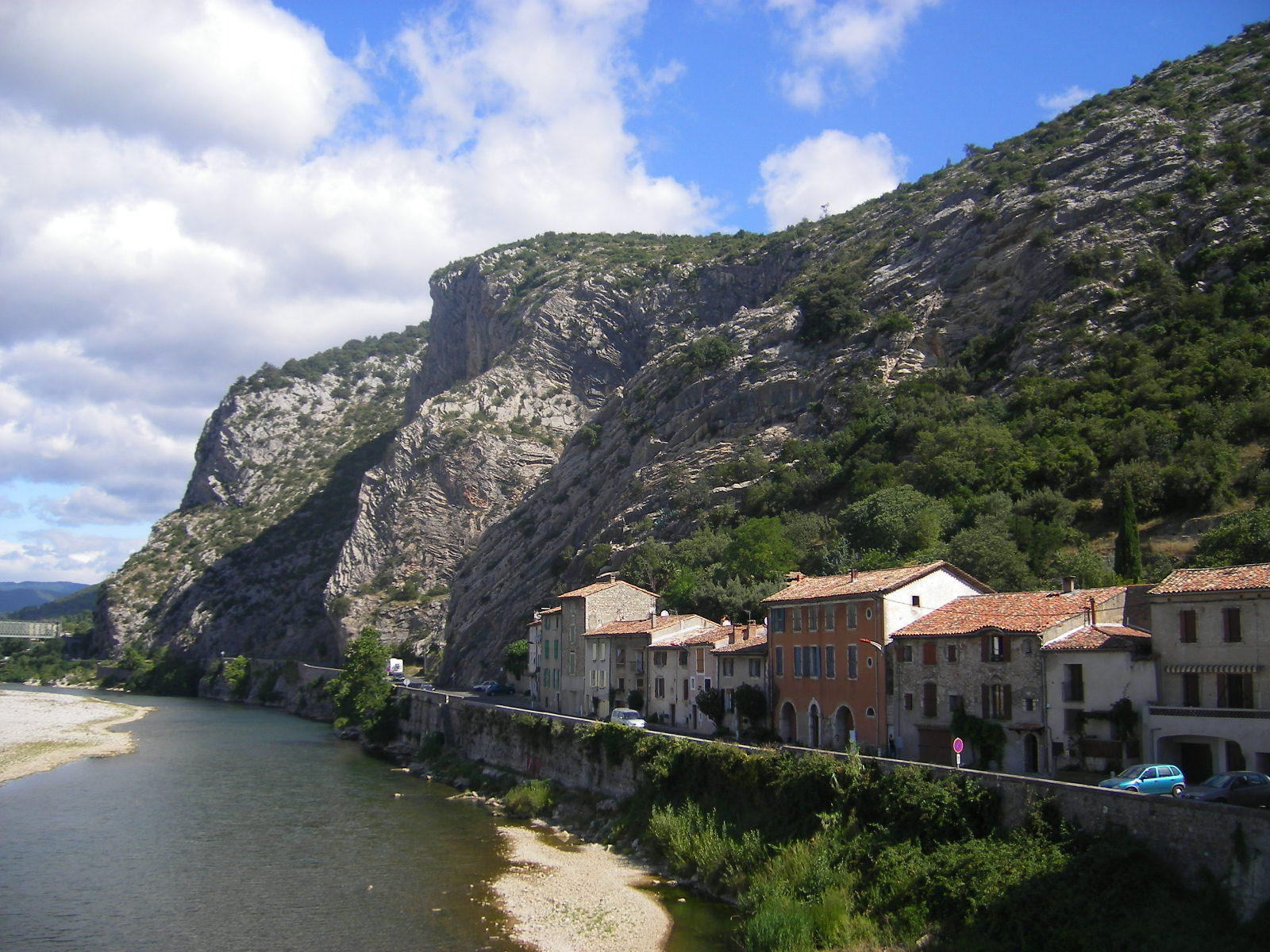 River Gardon (d´Anduze) in Anduze, left bank upstream